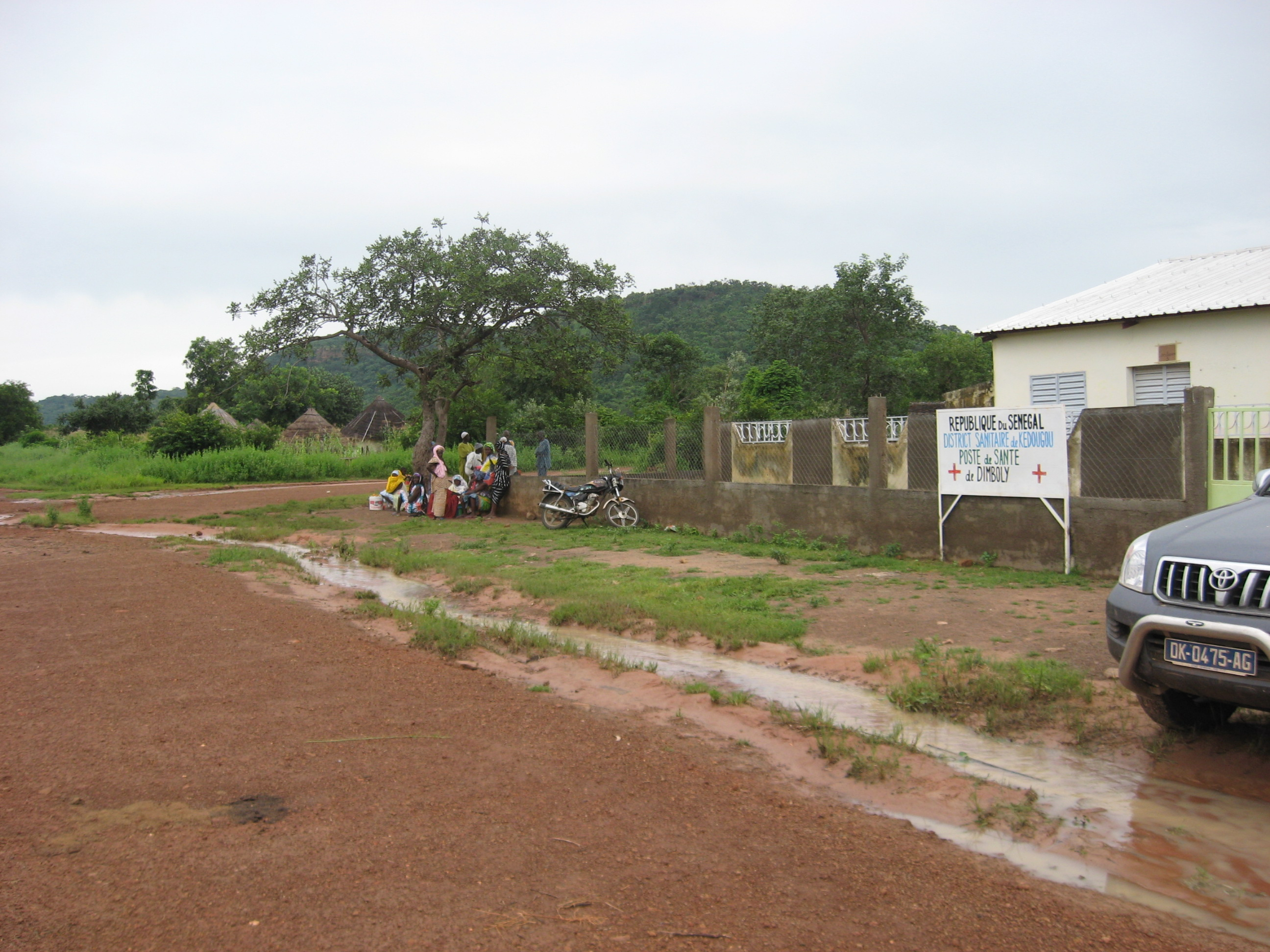 Dimboli health post (Kedougou region, Senegal)